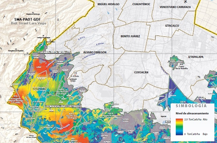 Almacenamiento de carbono en cuajimalpa